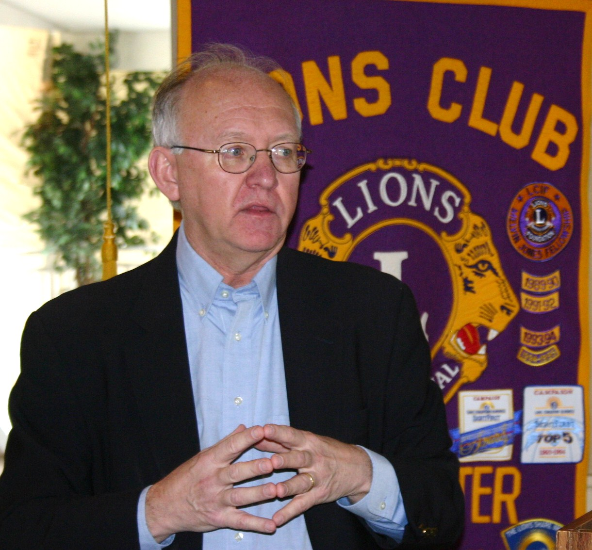 Bruce Mowday speaks to Lions Club about "Jailing the Johnston Gang"